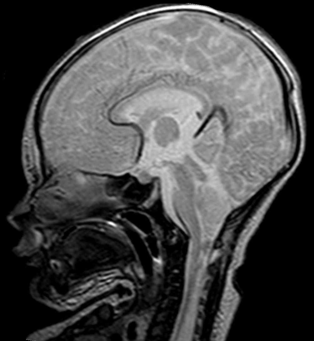 Chiari 2 Malformation in newborn child. MRI T2w sagittal.